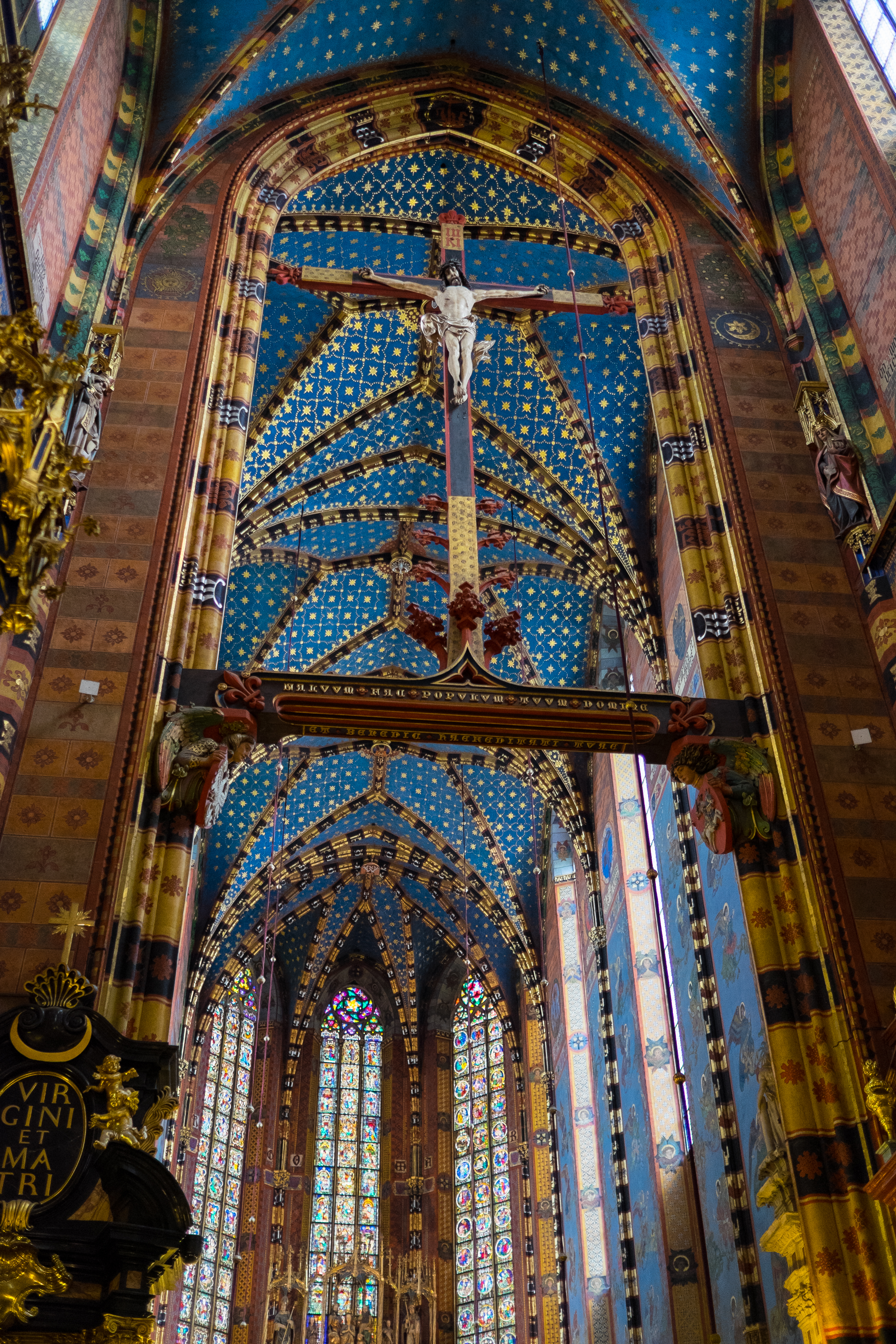 Starry vault, in St Marys Church Krakow - Mariacki Basilica